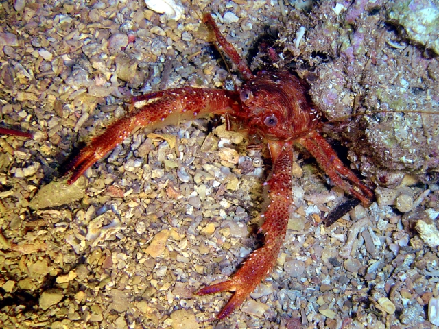 Galathea sp.